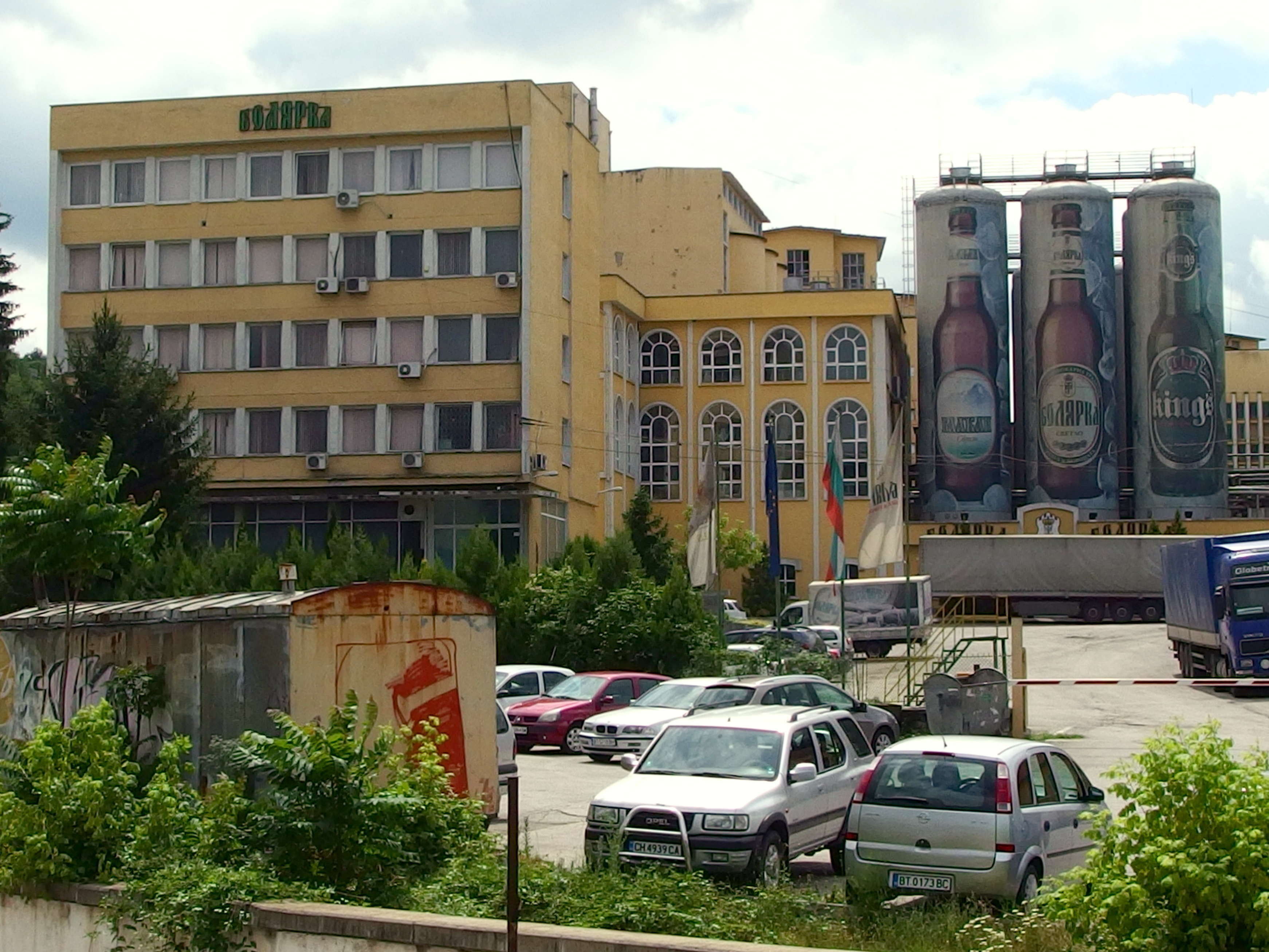 2014-06-20 in Veliko Tarnovo.